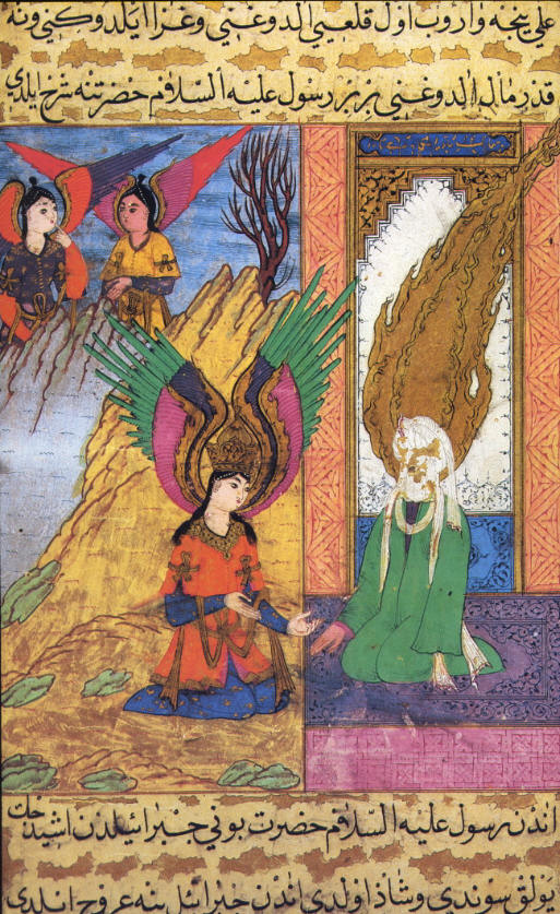 Siyer-I Nebi or Life of the Prophet